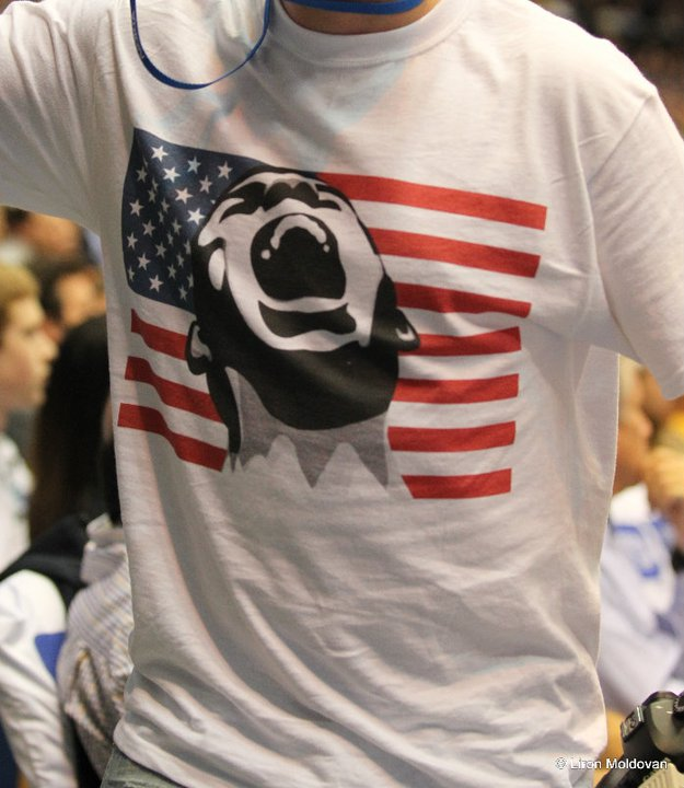 Noam Galai - The Stolen Scream shirt. See the story of The Stolen Scream.